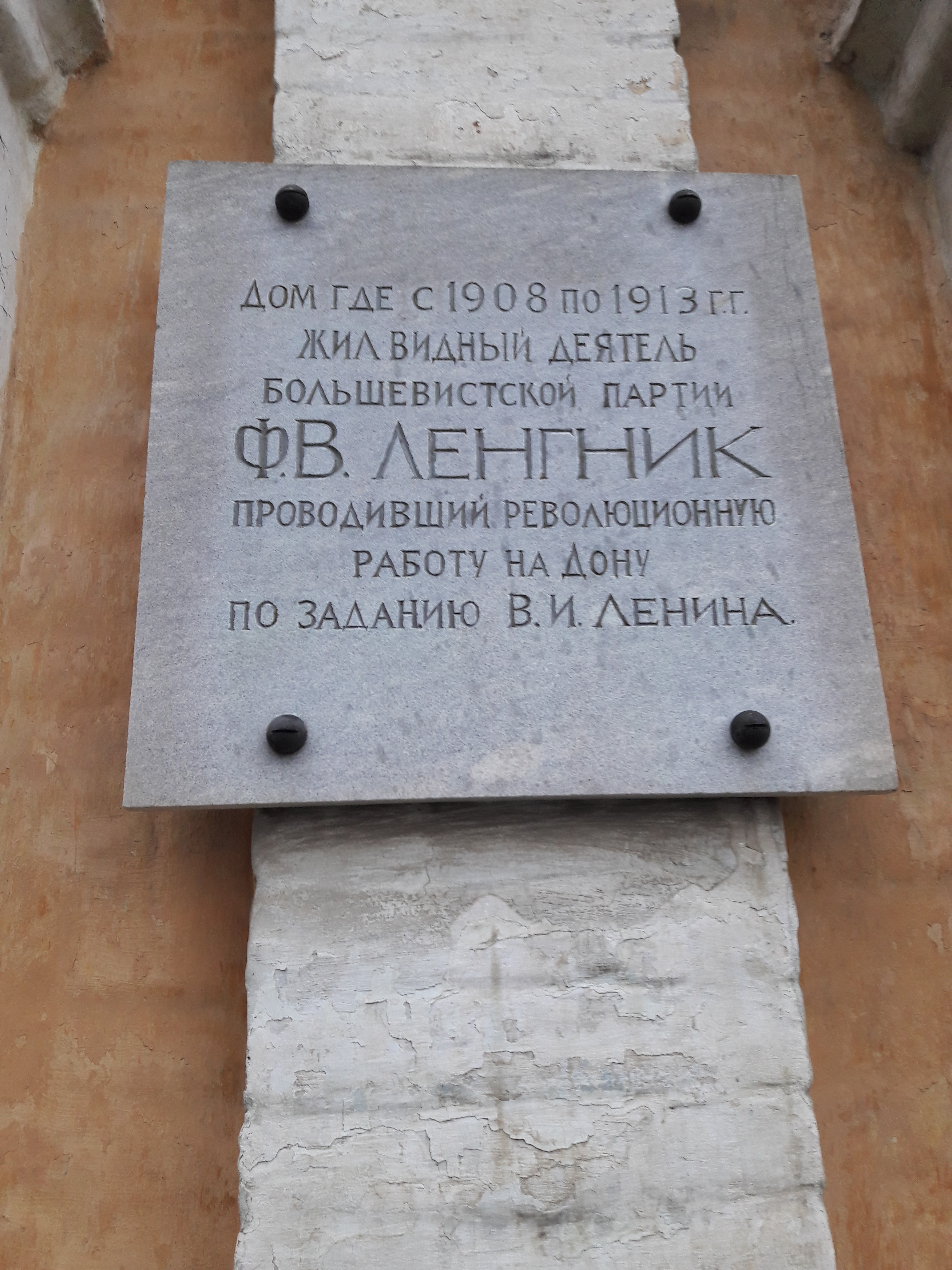 Memorial plaque on the house in Novocherkassk where lived Lengnik